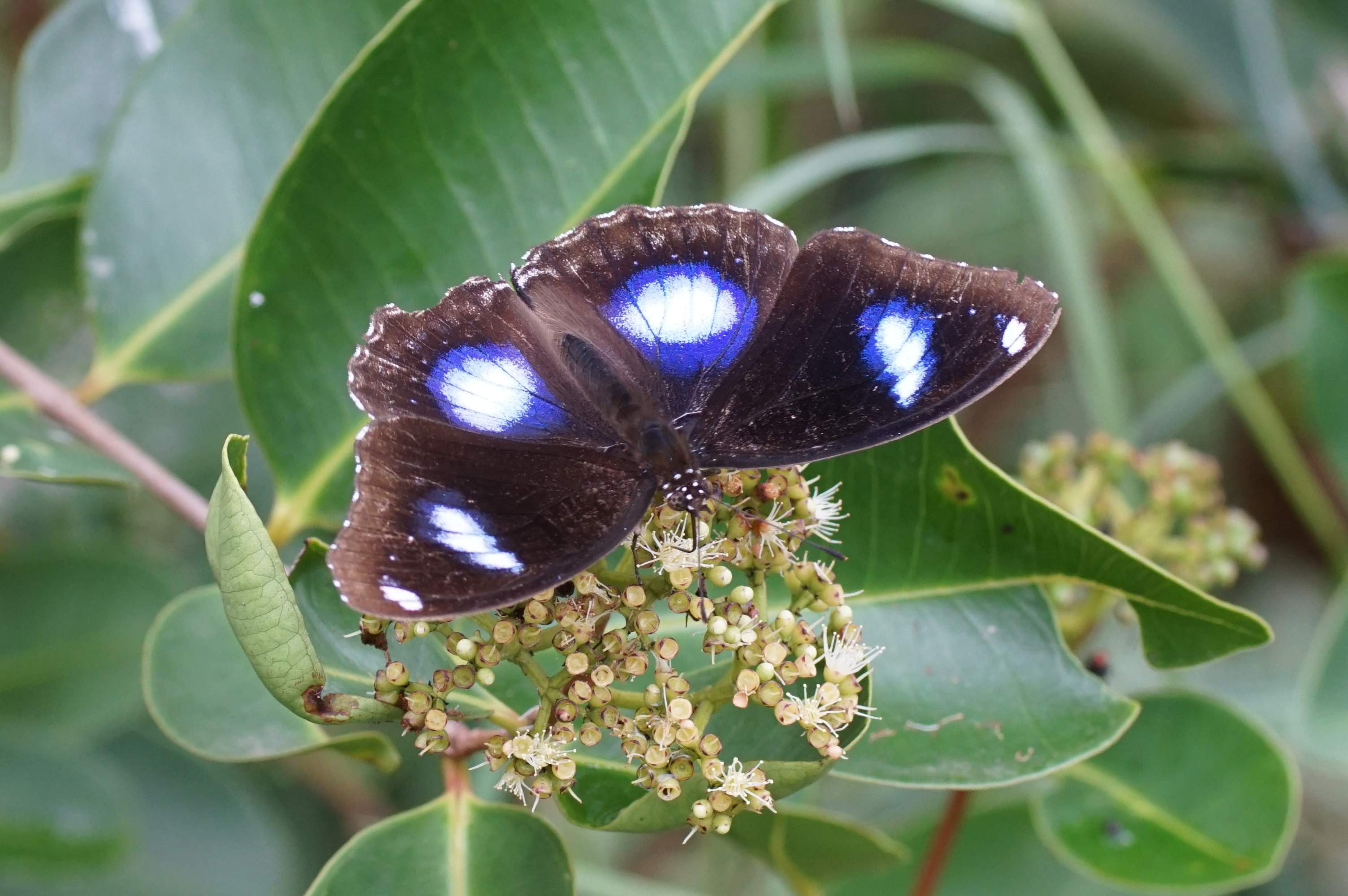 Hypolimnas bolina